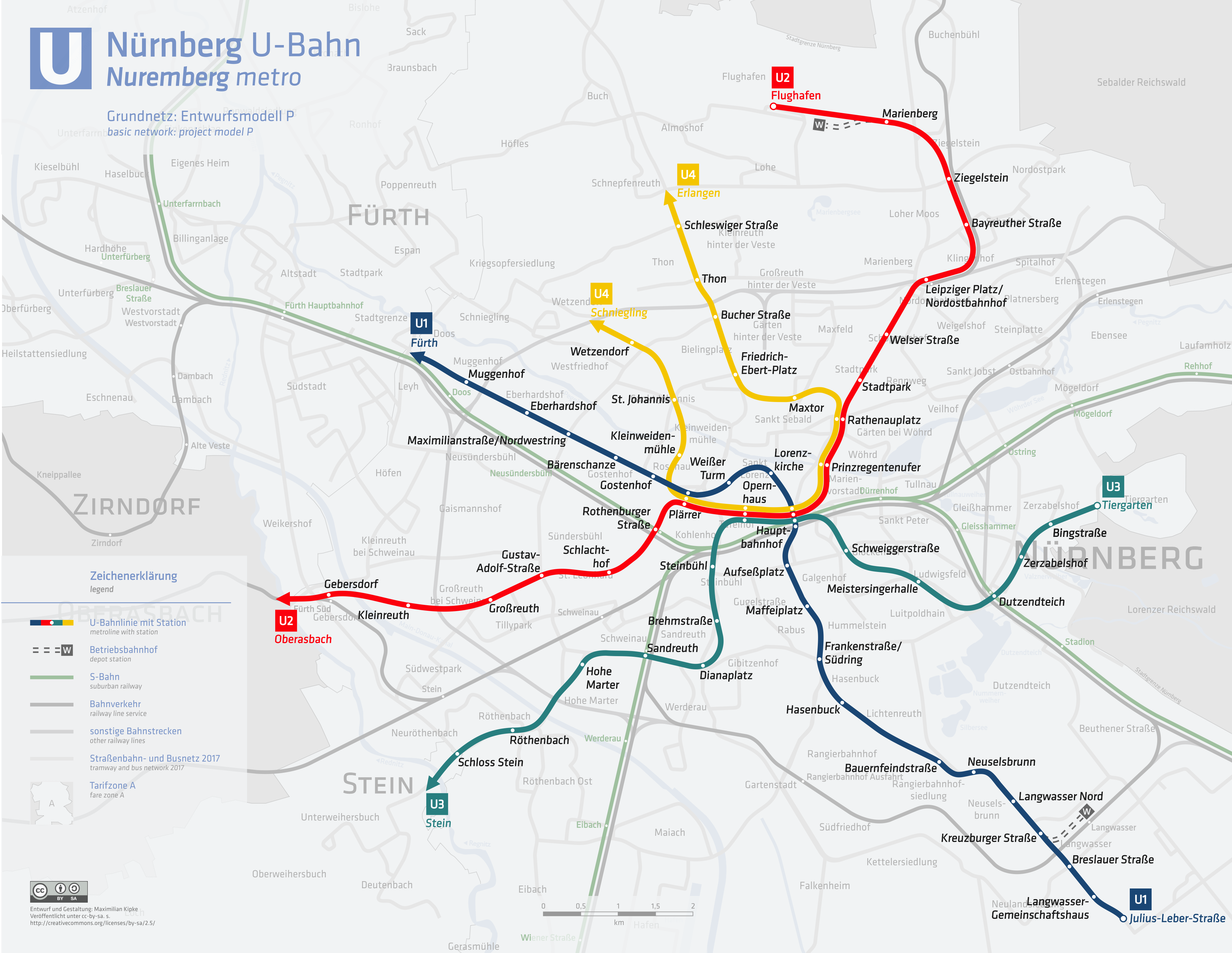 basic network: project model P of nuremberg metro